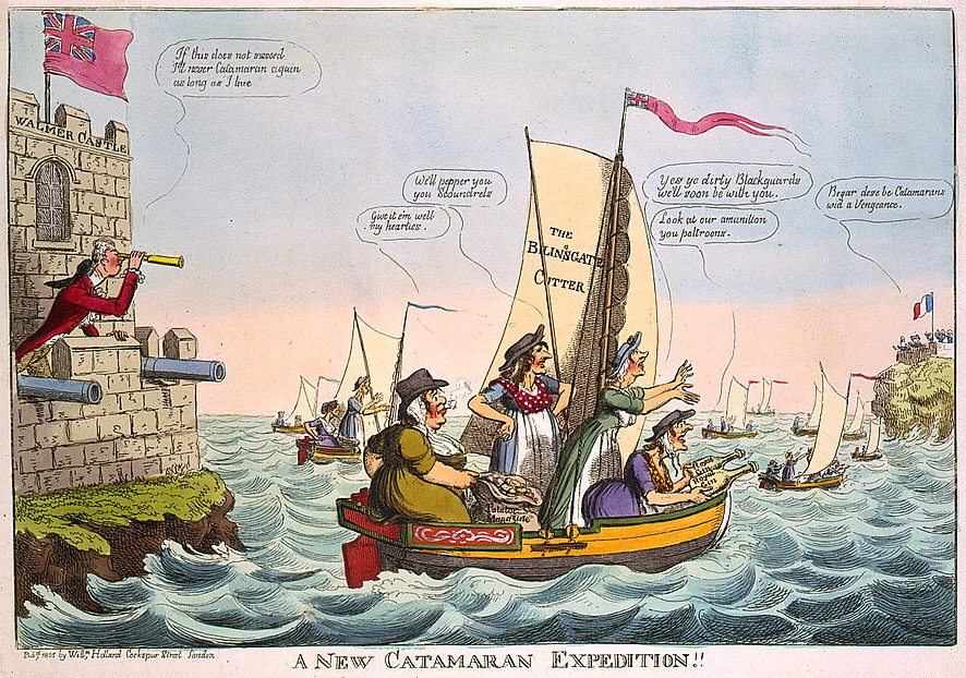 British engraving, a political satire cartoon by Isaac Cruikshank, titled A New Catamaran Expedition!!!", 1805. It is a detailed scene with various speech balloons. An Englishman (representing Prime Minister William Pitt the Younger) looks on from Walmer Castle, as a fleet of sailboats (not actually drawn as catamarans head out to attack a French fort across the English Channel. The Englishman is saying, "If this does not succeed I'll never Catamaran again as long as I live." Ship The Bilingsgate Cutter, in foreground, carries four fishwives (back then a shrewish woman stereotype) to terrorize the French. They are armed with a "potatoe magazine" (sack of potatoes, perhaps to throw) and two bottles of "royal gin" aimed like cannon. The women are shouting: "We'll pepper you scoundrels", "Give it 'em well, my hearties.", "Yea ye dirty Blackguards we'll soon be with you.", and "Look at our ammunition, you poltroons." Coming from the French fort is the reply, "Begar dese le Catamarans wid a Vengeance." (apparently eye dialect for something like "Bugger this, catamarans with a vengeance"). The point of the piece was to suggest that the unruly fishwives would be enough to defeat the French, and to shame the PM for inaction.